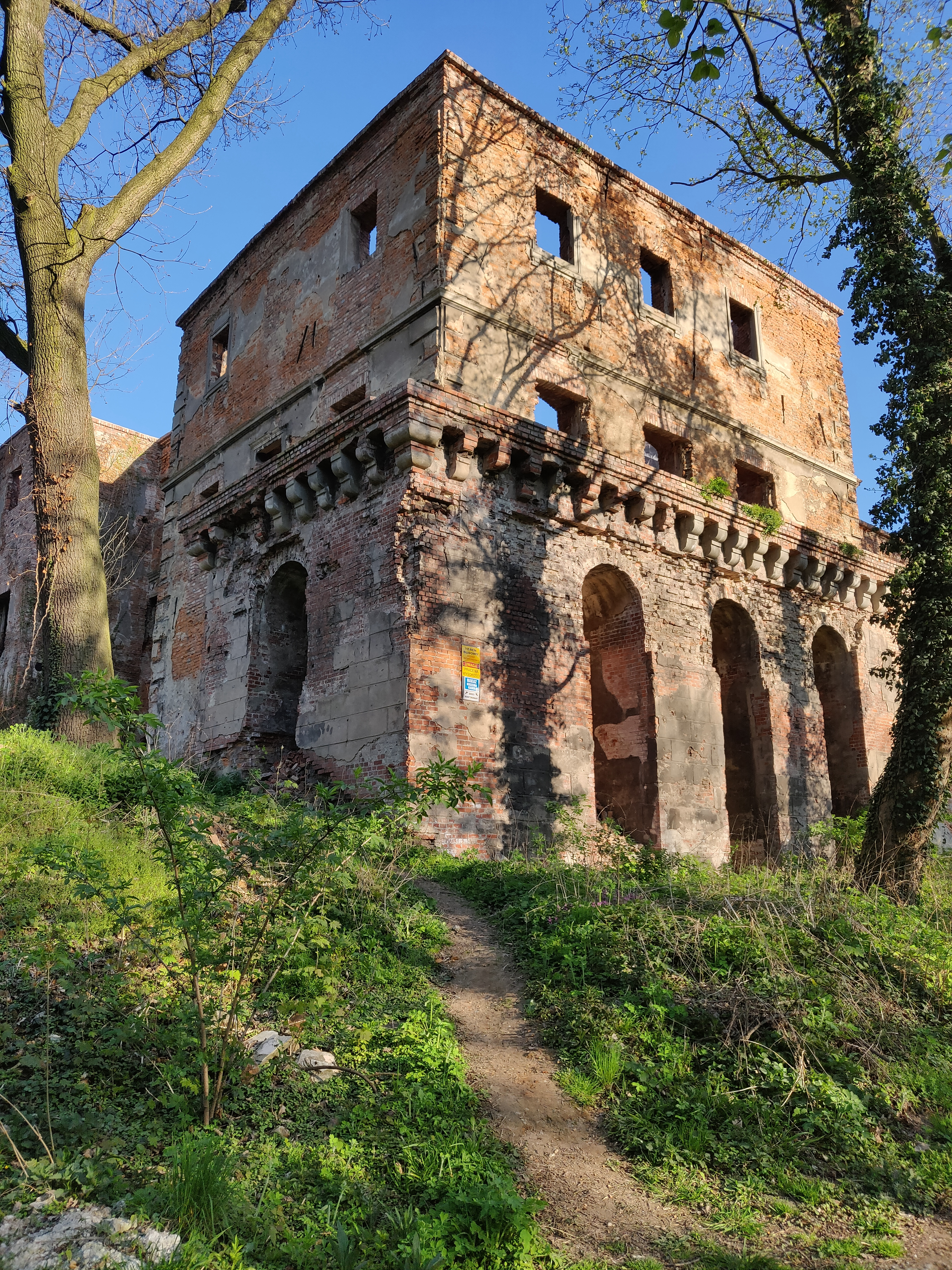 Tworków Palace